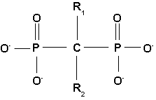 Bisphosphonate basic chemical structure